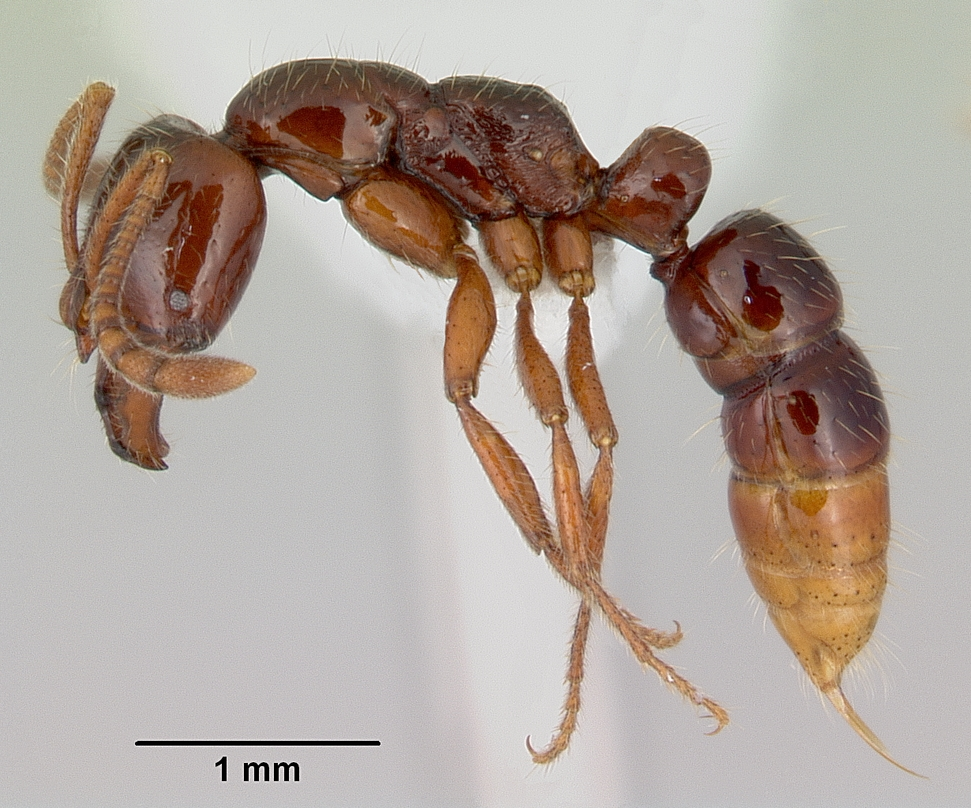 Profile view of ant Myopias chapmani specimen casent0172093.